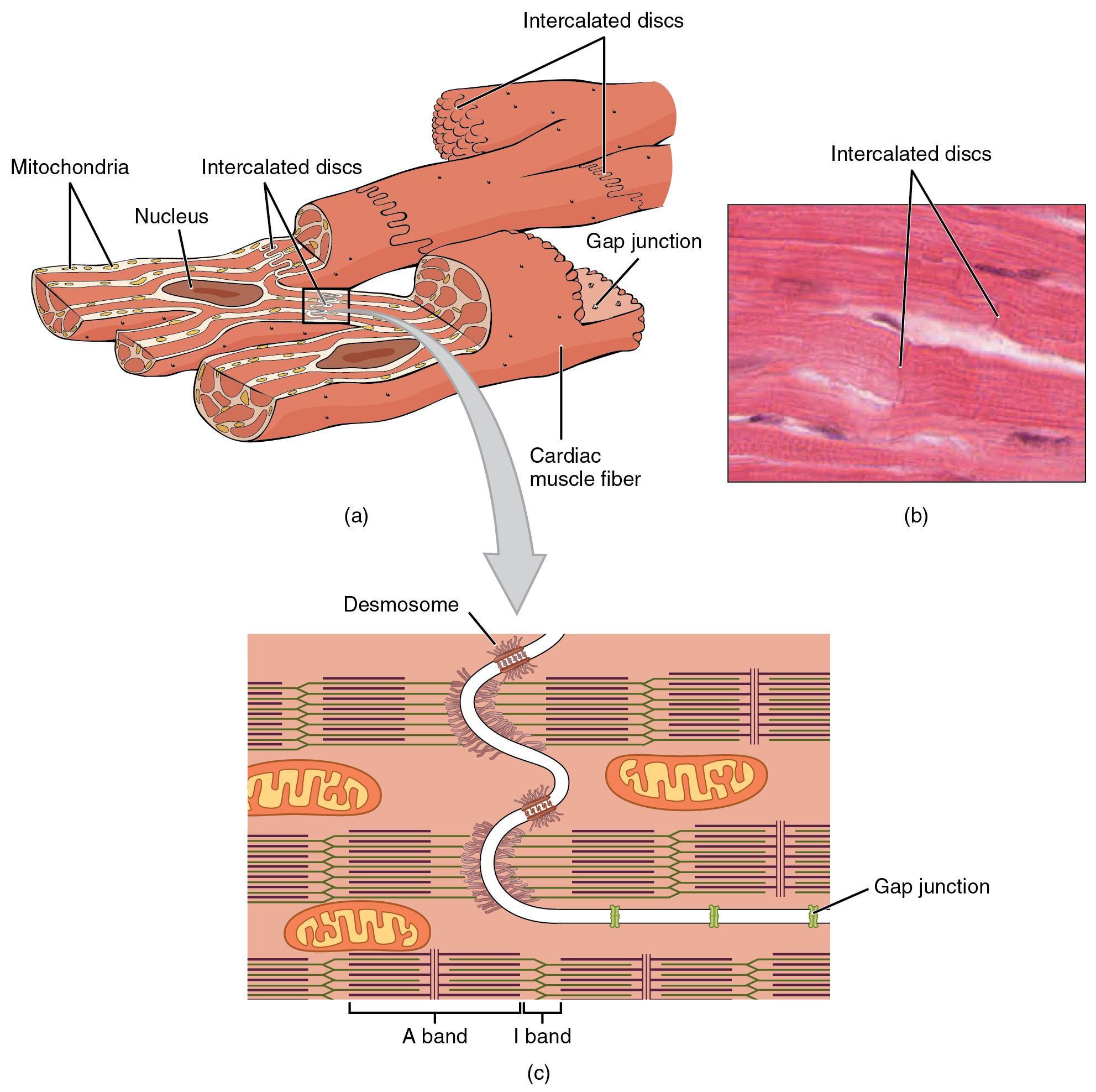 Anatomical illustration of Cardiac muscle